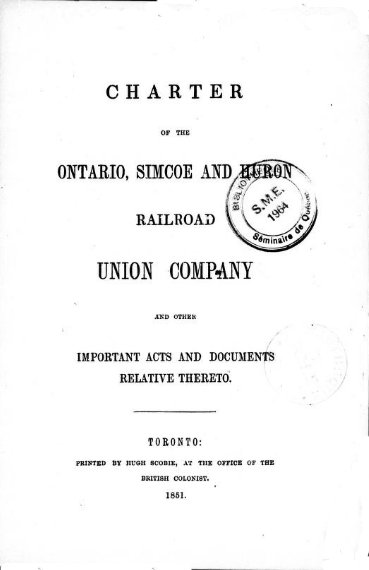 Cover of the charter of the Ontario, Simcoe,and Huron Railroad Union Company. Published in Toronto in 1851. Cleaned up using GIMP to remove notes in French at the top, and tears and creases at the bottom.